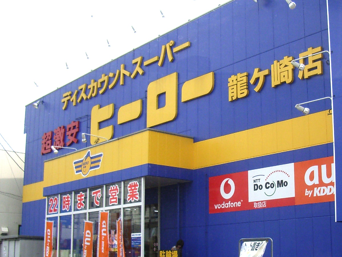 Exterior of Ryugasaki Hero, is discount store in Ryugasaki City, Ibaraki Prefecture, this photo shoot on September 3, 2005.